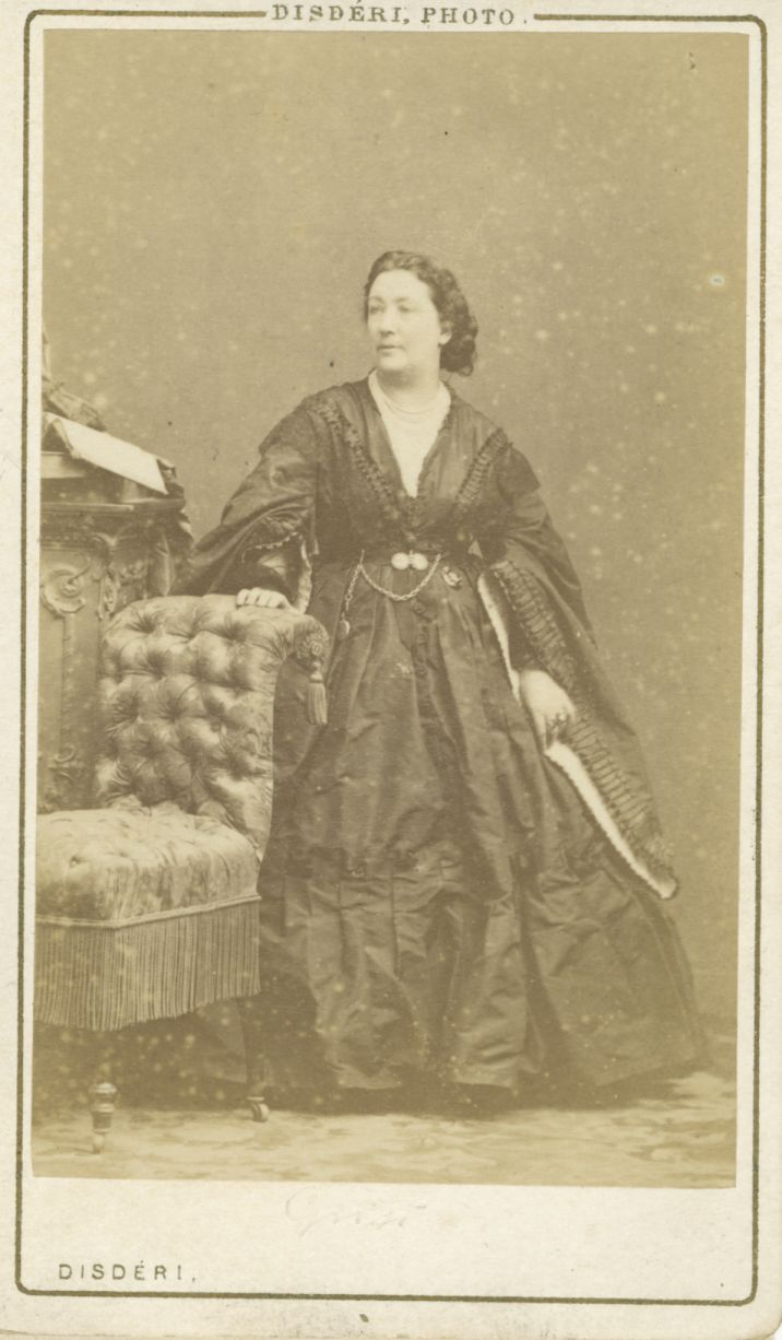 Artist: Disdèri Date/place: Unknown date/Paris Subject: Julia Grisi Medium: Photographic posetive Notes: Italian singer. Born in Milan 28.07. 1811 - dead in Berlin 29.11 1869 Original belongs to the Archives at [#//bergenbibliotek.no/digitale-samlinger” Bergen Public Library]